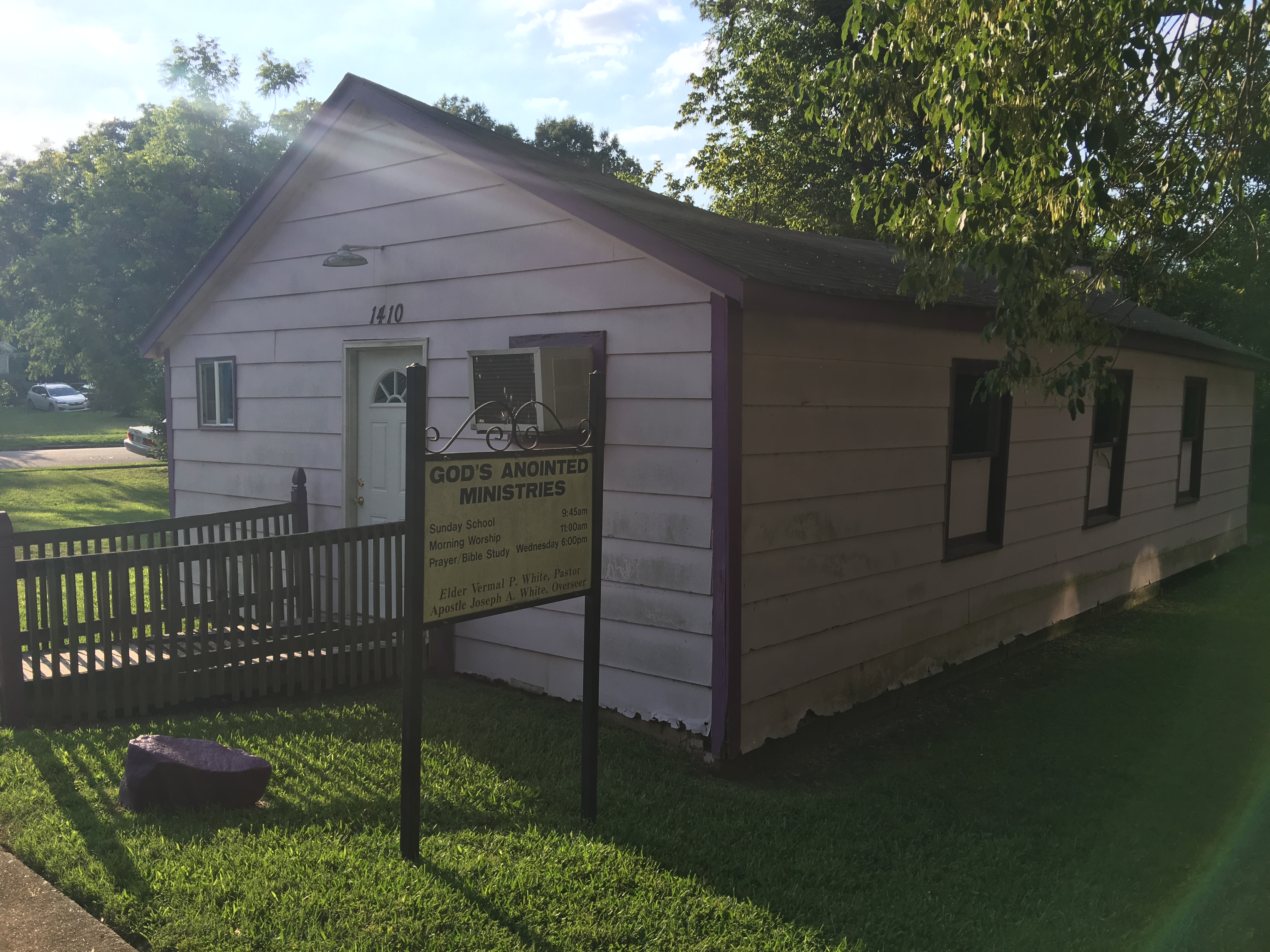 An African-American Pentecostal Church in Walltown, Durham, North Carolina